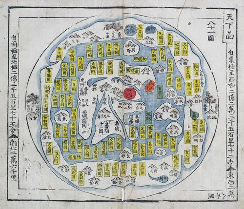 Cheonhado (literally "map of the world beneath the heavens") included in Yojido. Korean woodblock Atlas on rice paper.